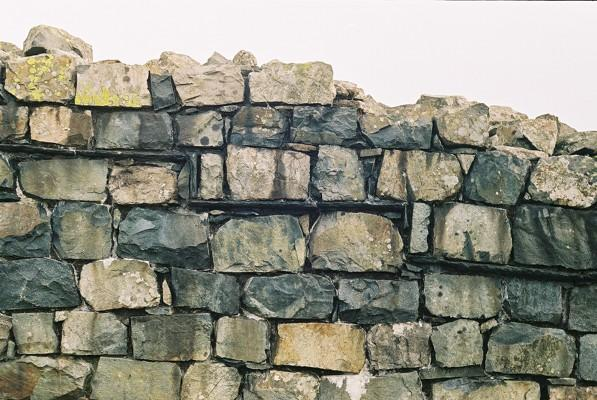 A Roman damp-proof course at Hardknott Roman Fort. The layer of slate in the wall blocks rising damp.